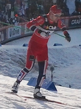 Norwegian cross-country skier Sondre Turvoll Fossli at Lahti Ski Games 2014.